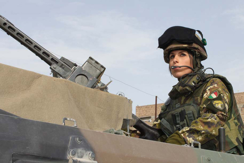 Alpini from the 3rd Mountain Artillery Regiment of the Italian Army on patrol in Afghanistan with VTLM Lince.